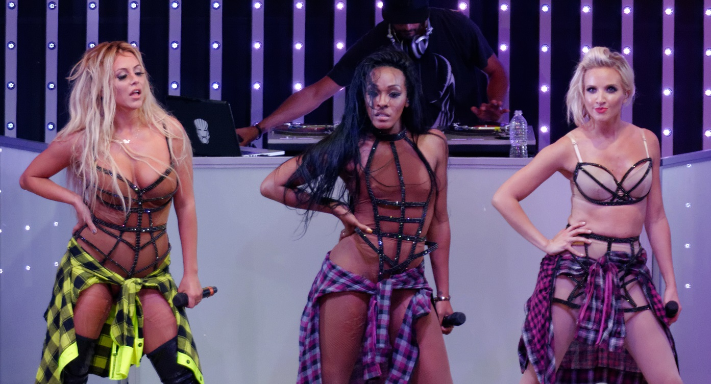 Danity Kane performing live on the 5 Towers stage at Universal Citywalk, in Universal City (Los Angeles) California on Thursday July 10th, 2014.